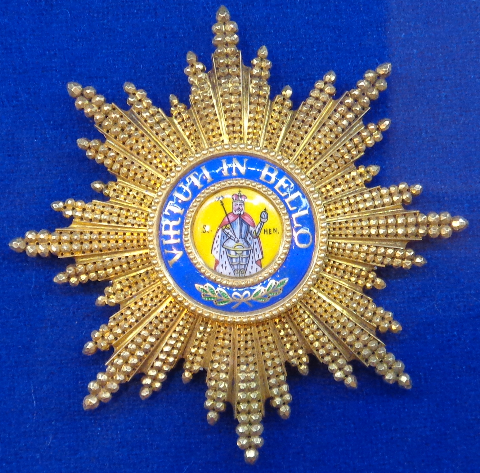 Military Order of Saint Henry, star of Grand Cross, c.1916. Kingdom of Saxony. The exhibition of the Tallinn Museum of Orders of Knighthood, Estonia.